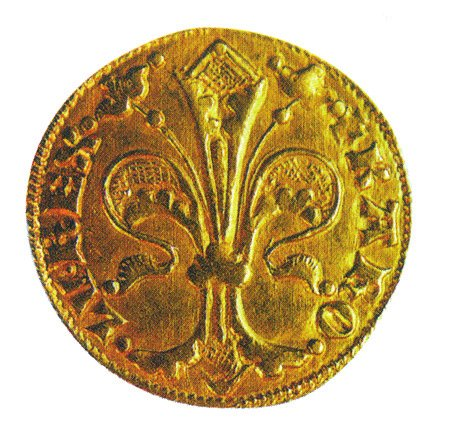 Floren of Charles I of Hungary